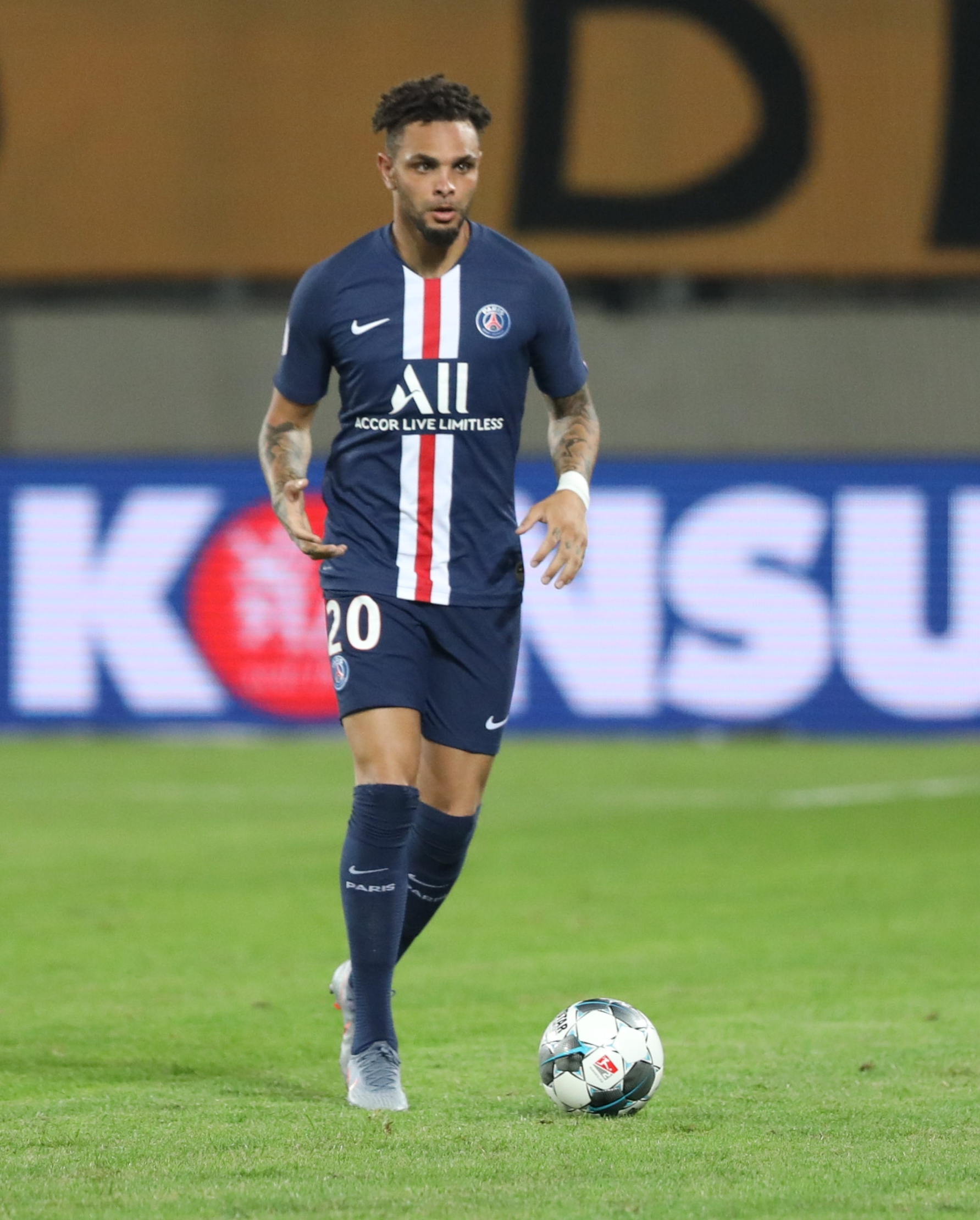 Test game, 17th July 2019: SG Dynamo Dresden vs. Paris Saint-Germain 1:6 (0:3)